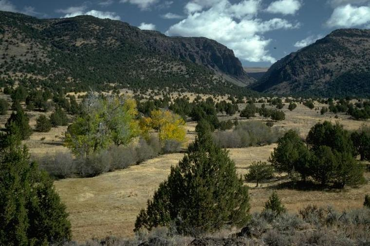 Riddle Ranch National Historic District in Harney County, Oregon; view of the Riddle brother's ranch in the Little Blitzed Valley with Little Blitzen Gorge in the background